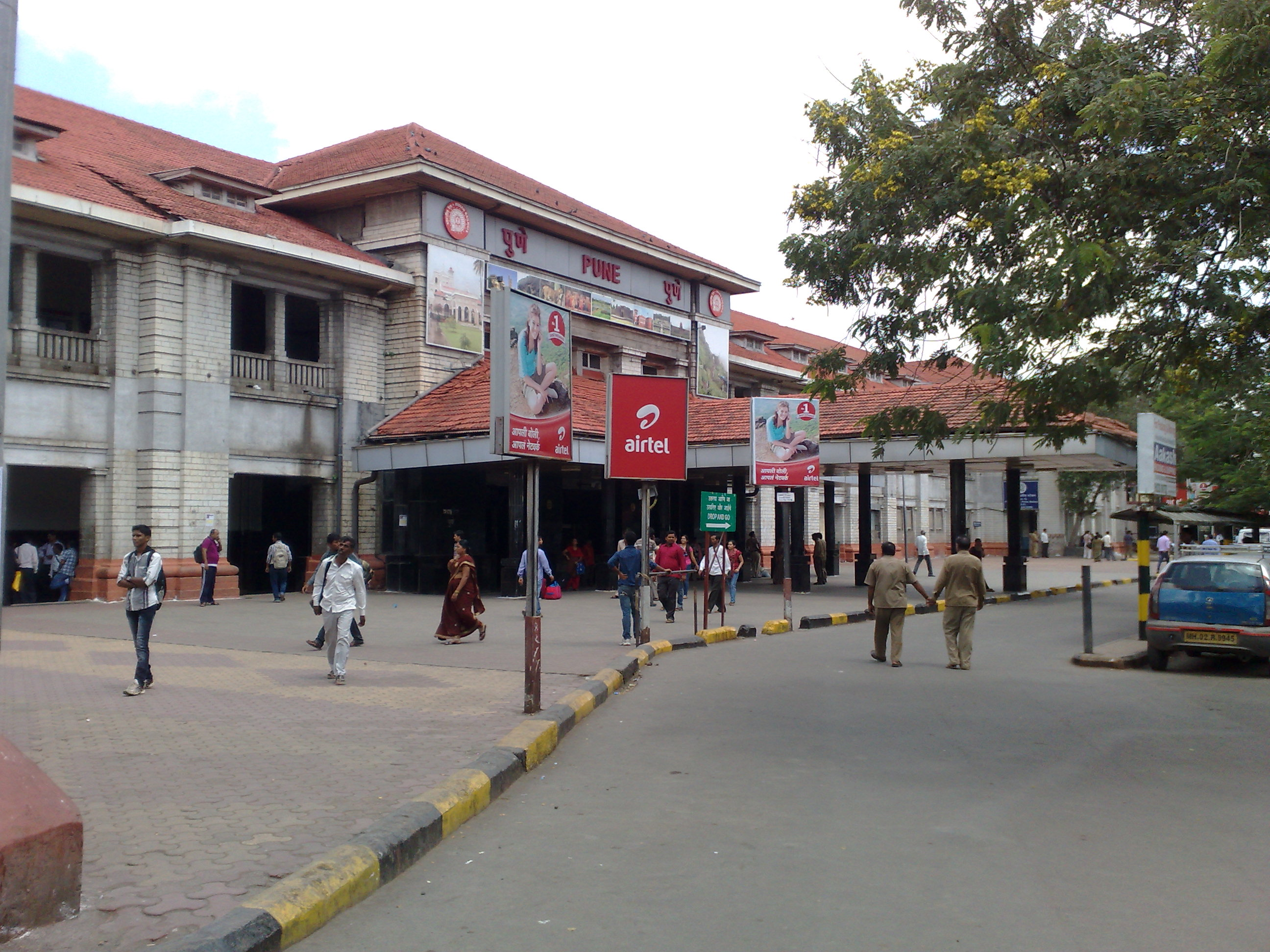 Pune railway station - Entrance